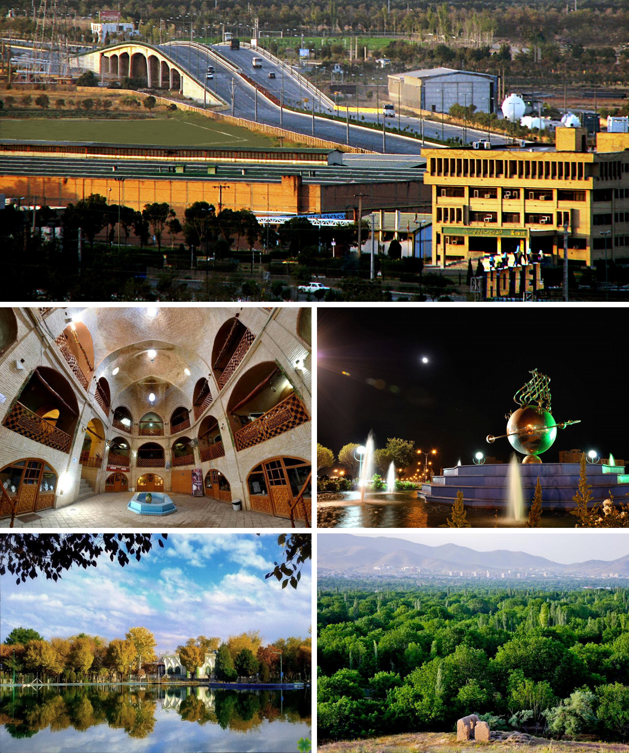 Montage of the city of Arak. Clockwise from top: Bakhtyari Bridge, Valiasr Square, Senejan, City Park, and the old bazaar.